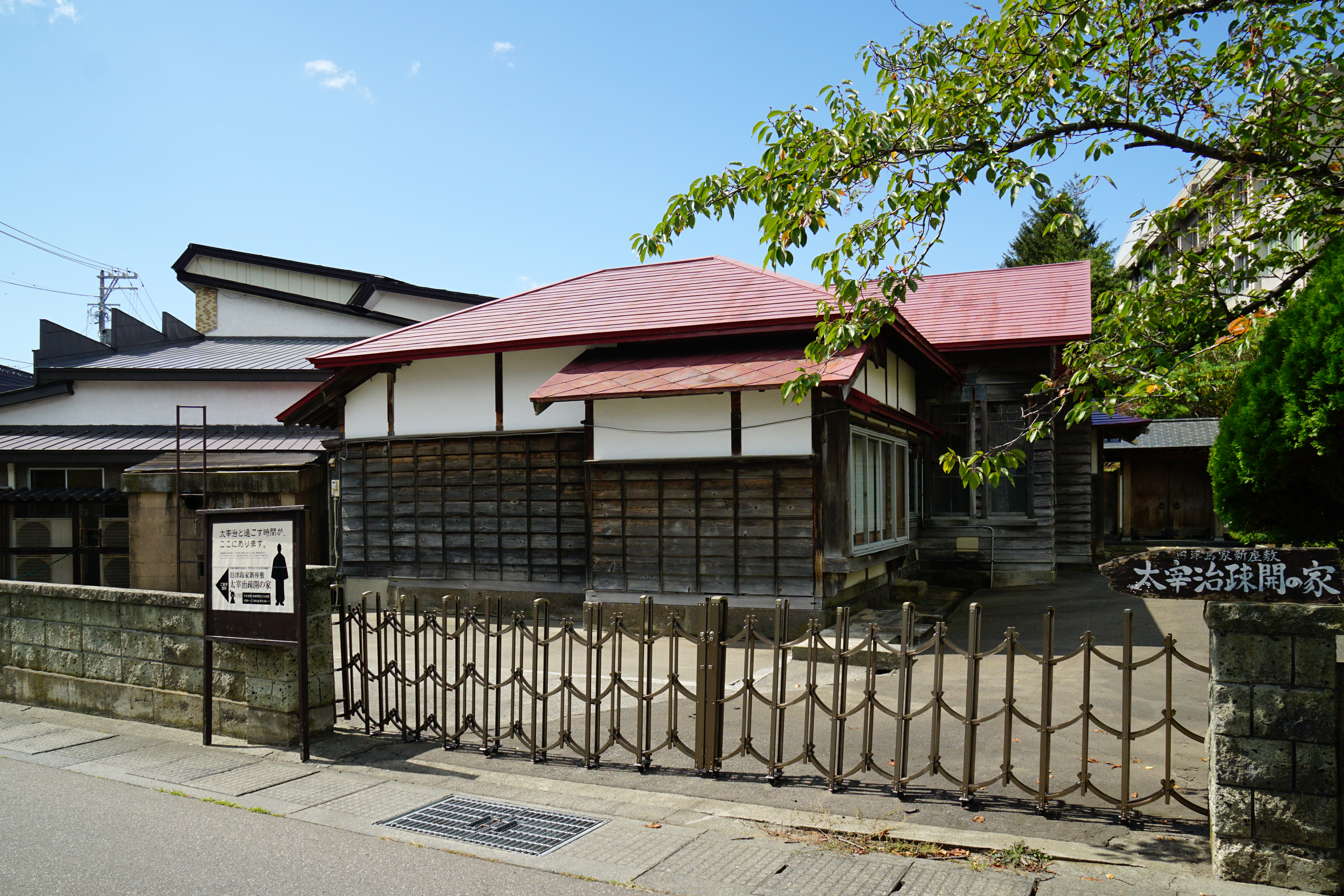 House of Dazai Osamu evacuation in Goshogawara, Aomori prefecture, Japan.